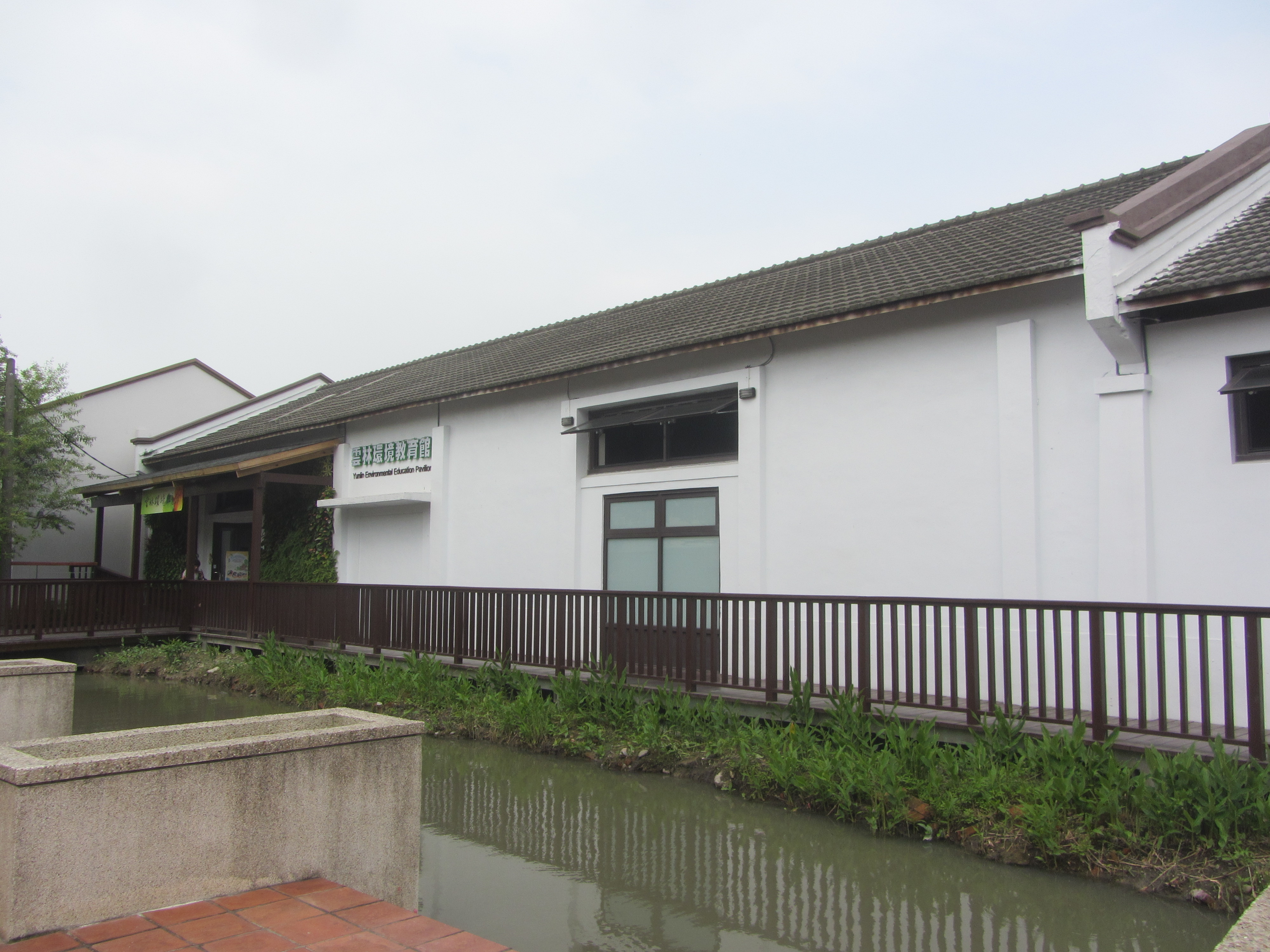 Yunlin Environmental Education Pavilion